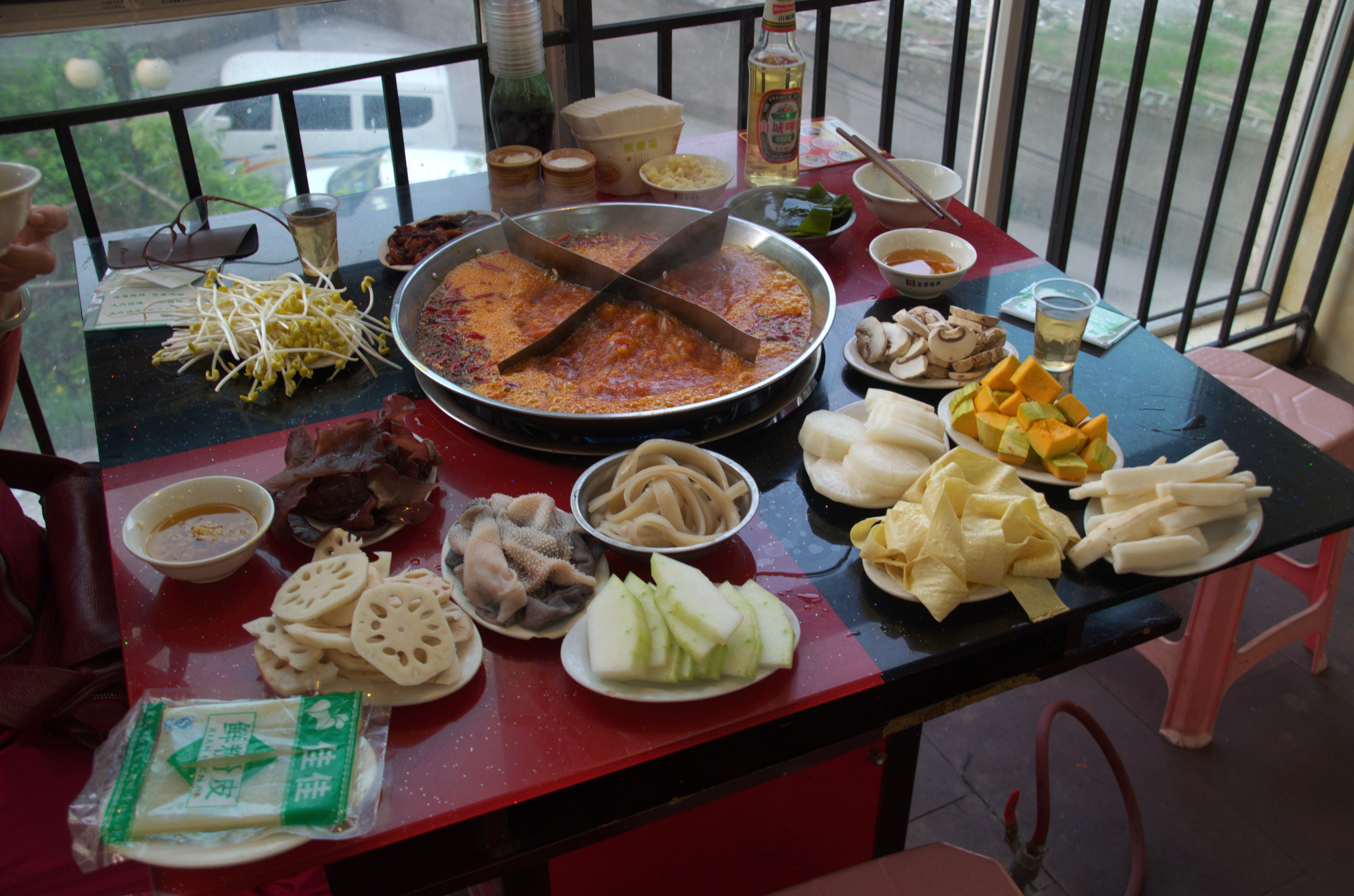 The original Sichuan hot pot, at Chongqing and the local beer, the Shancheng Pijiu (山城啤酒 beer of the mountain-city, this is the surname of the city).